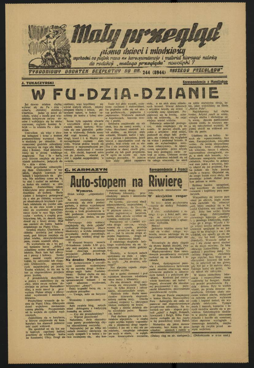 Front page of "Mały Przegląd" (Little Review) of 1 September 1939